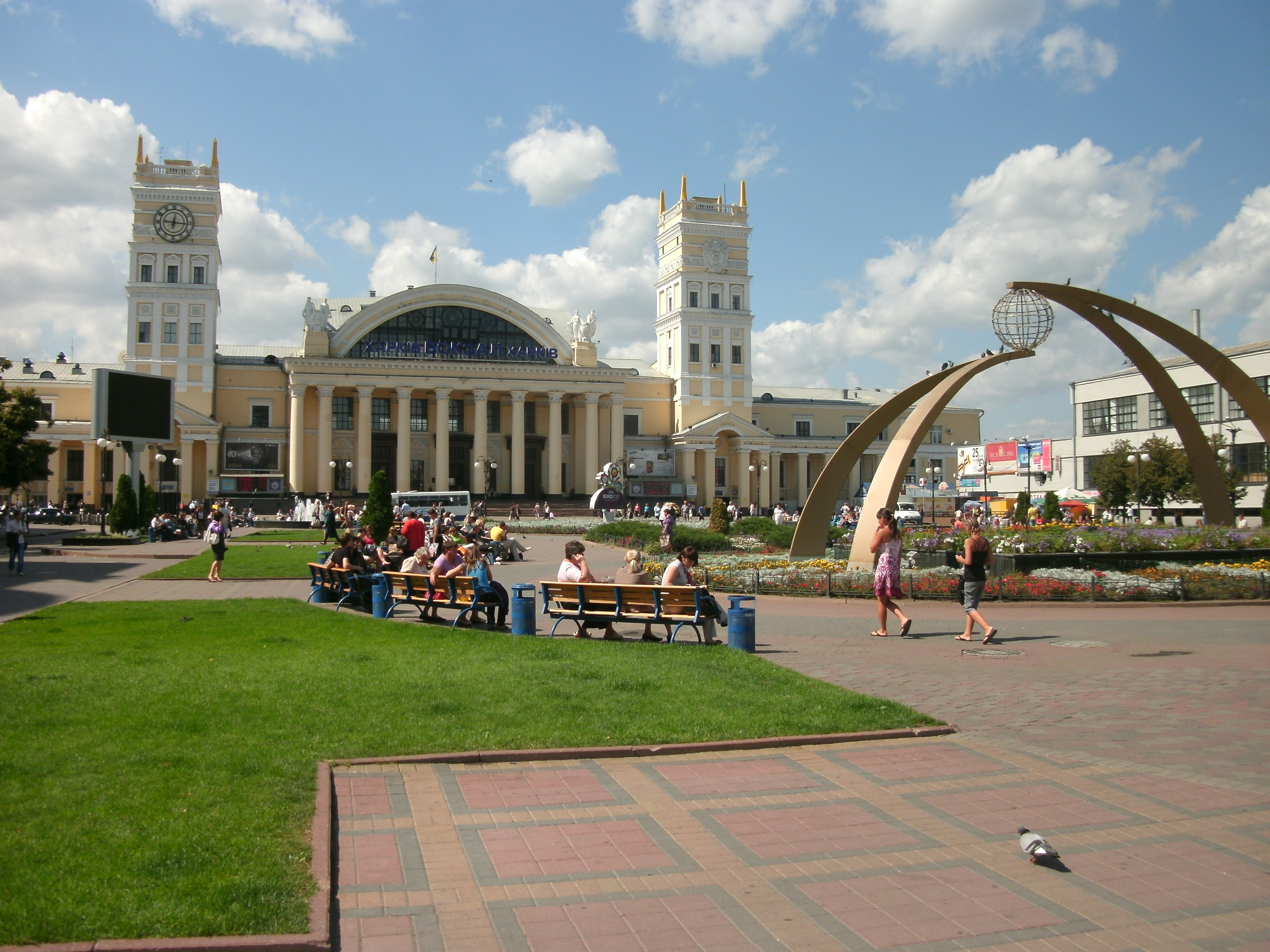 Kharkov Southern Railway Station